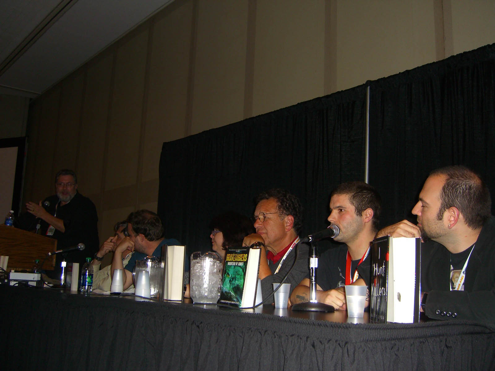 The Saturday zombie discussion panel featuring novelists who have worked in the genre on Day 3 of the 2012 New York Comic Con, Saturday October 13, 2012 at the Jacob K. Javits Convention Center in Manhattan. From left to right are emcee Jonathan Maberry, Stefan Petrucha, Will Hill, Rachel Caine, Chase Novak, Christopher Krovatin and Barry Lyga. This photo was created by Luigi Novi. It is not in the public domain, and use of this file outside of the licensing terms is a copyright violation.